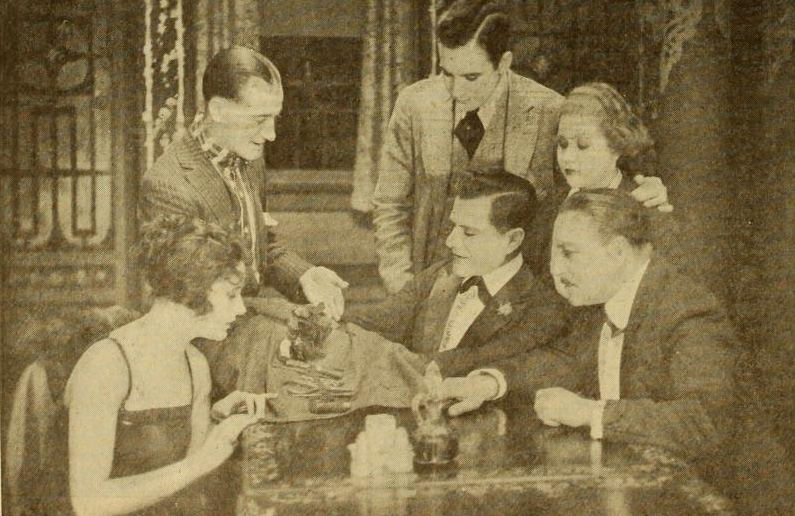 Bert Lytell (seated center) and his gang